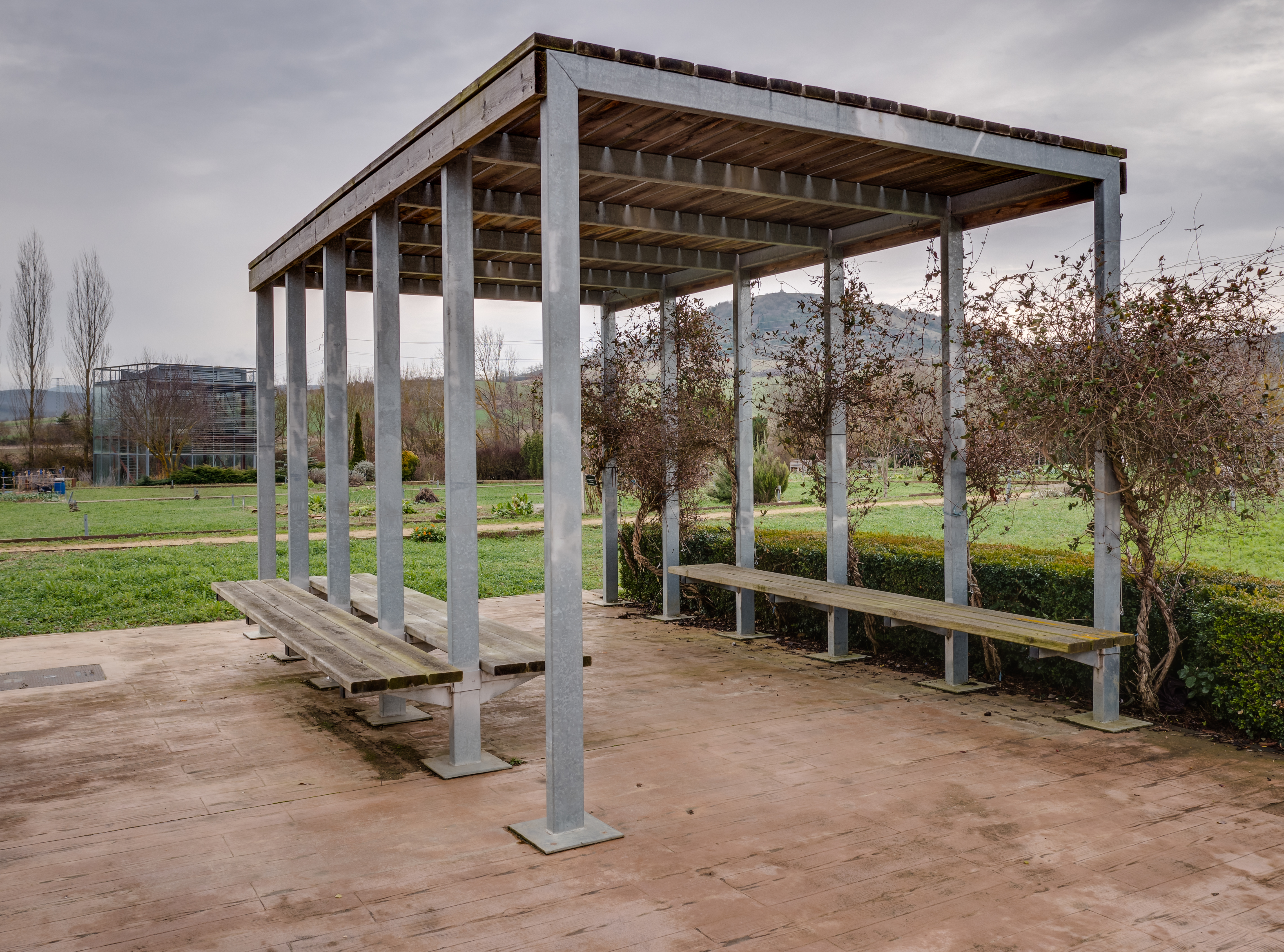 Pergola at the Olarizu Allotments. Vitoria-Gasteiz, Basque Country, Spain